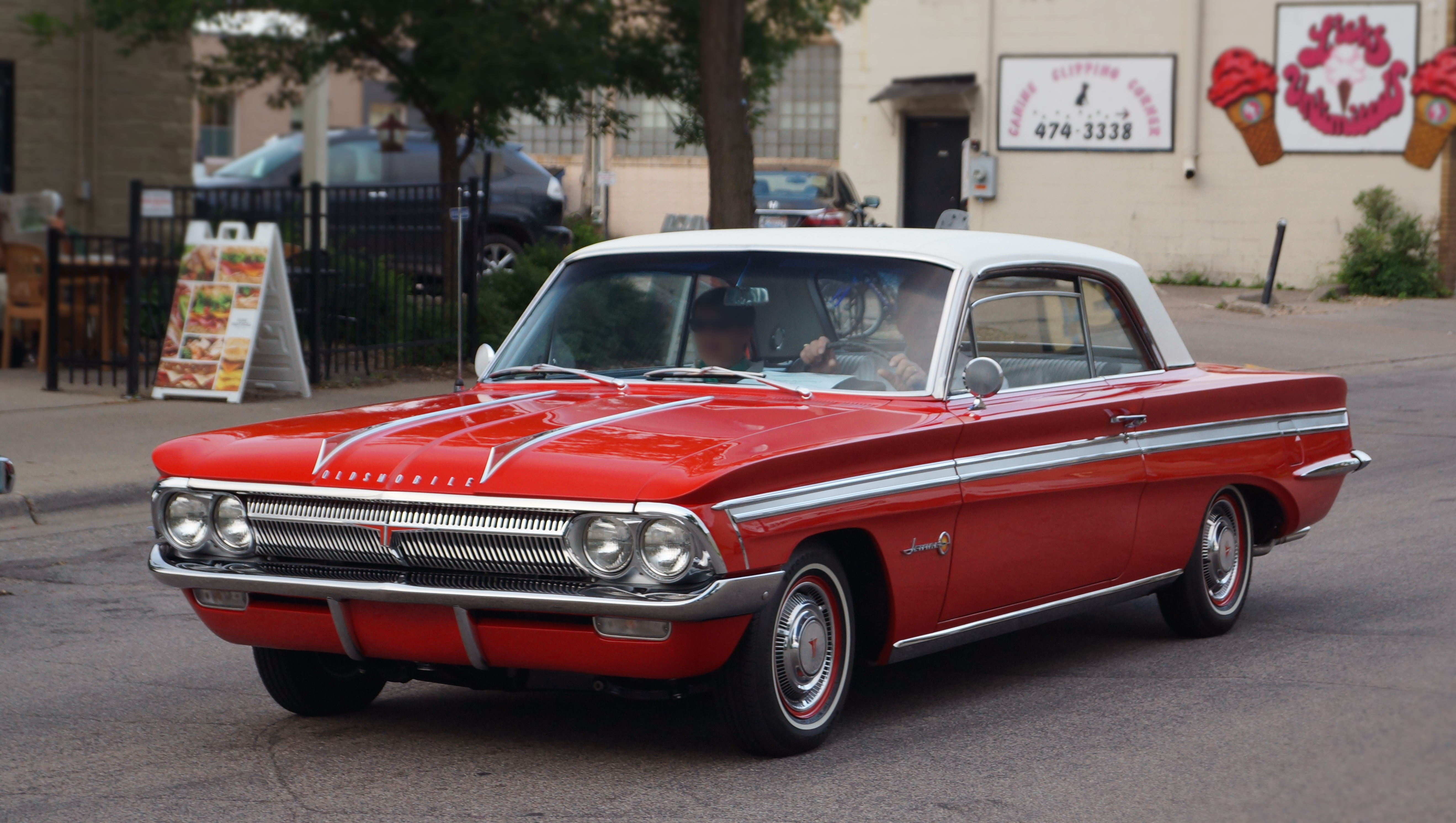 10,000 Lakes Concours d'Elegance Excelsior Commons Excelsior, Minnesota July 22, 2018 Pictures of previous years 10,000 Lakes Concours d'Elegance Click here for more car pictures by make Click here for Car Event pictures by year. Or here for my Car Crazy Tumblr site. Or on Twitter @DVS1mn. 1962 Oldsmobile Jetfire at the 10,000 Lakes Concours d'Elegance 2018